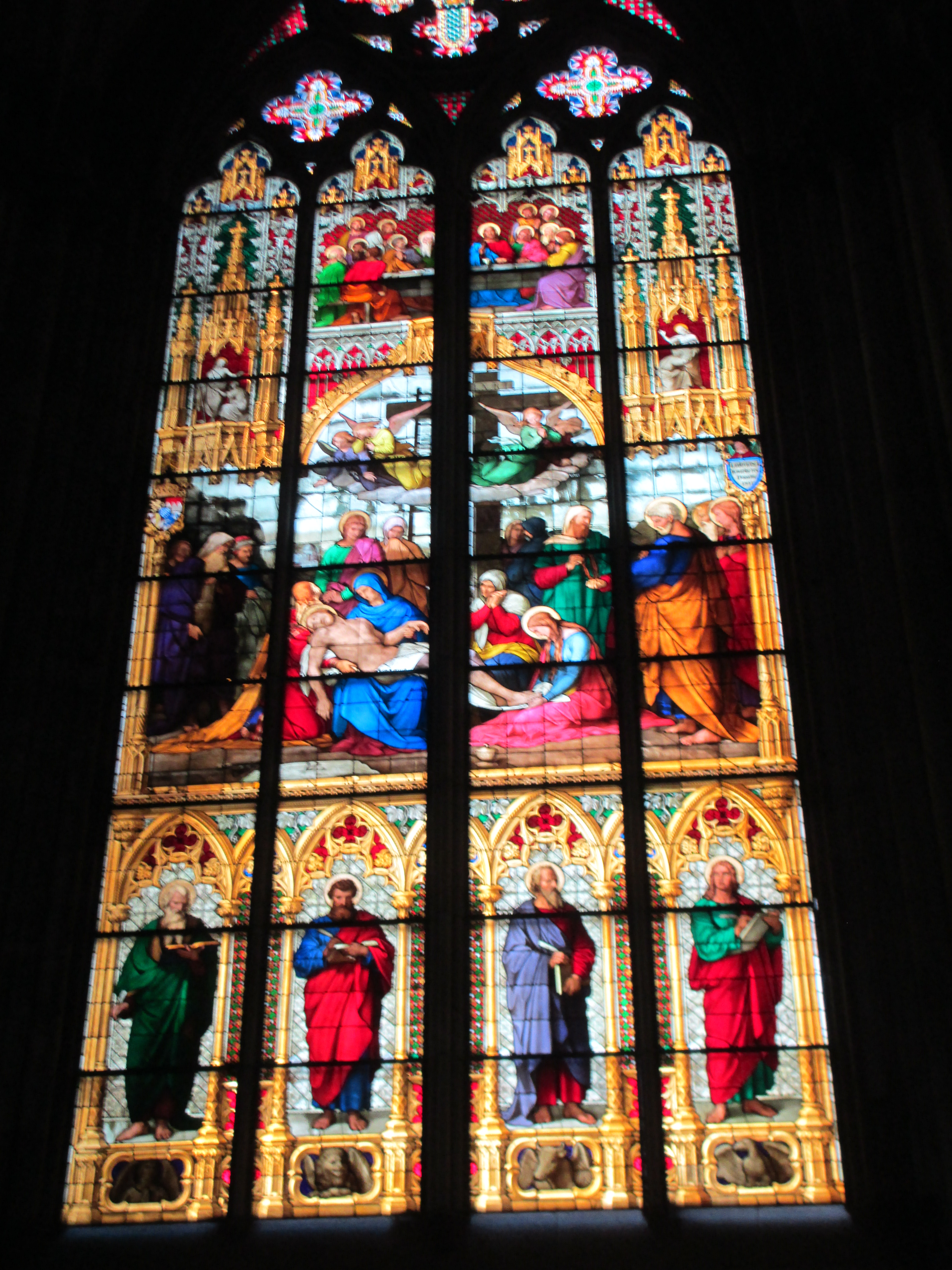 Chorfenster (Cologne Cathedral)